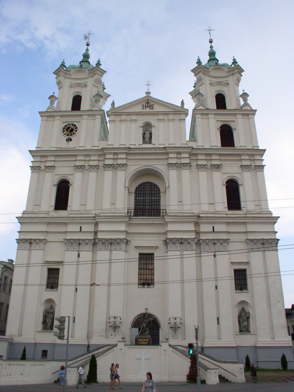 Church of Saint Francis Ksaver. Hrodna, Belarus.